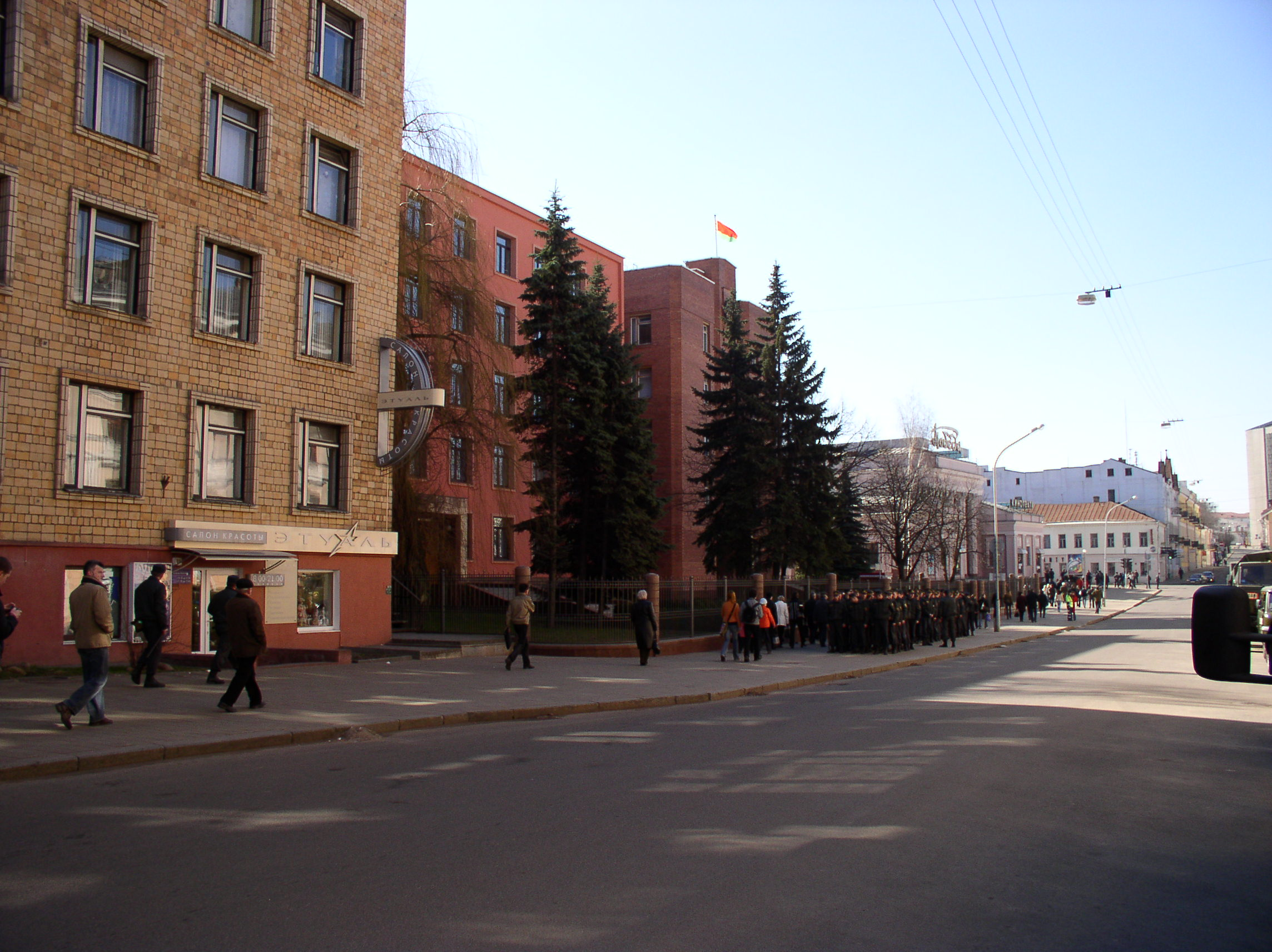 Militia, March 25, 2007. Minsk, Belarus.